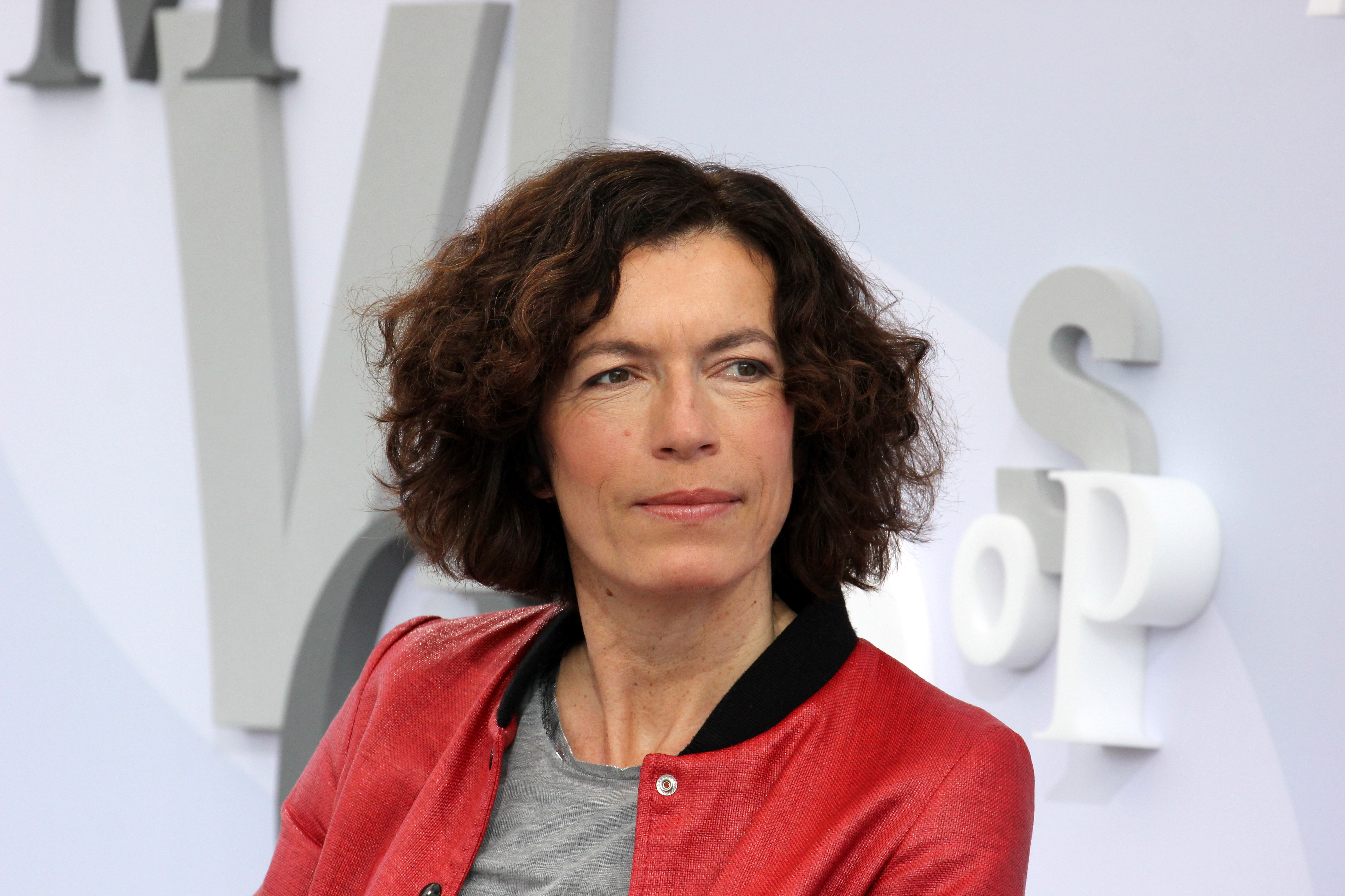 Anne Weber Leipzig Book Fair 2017